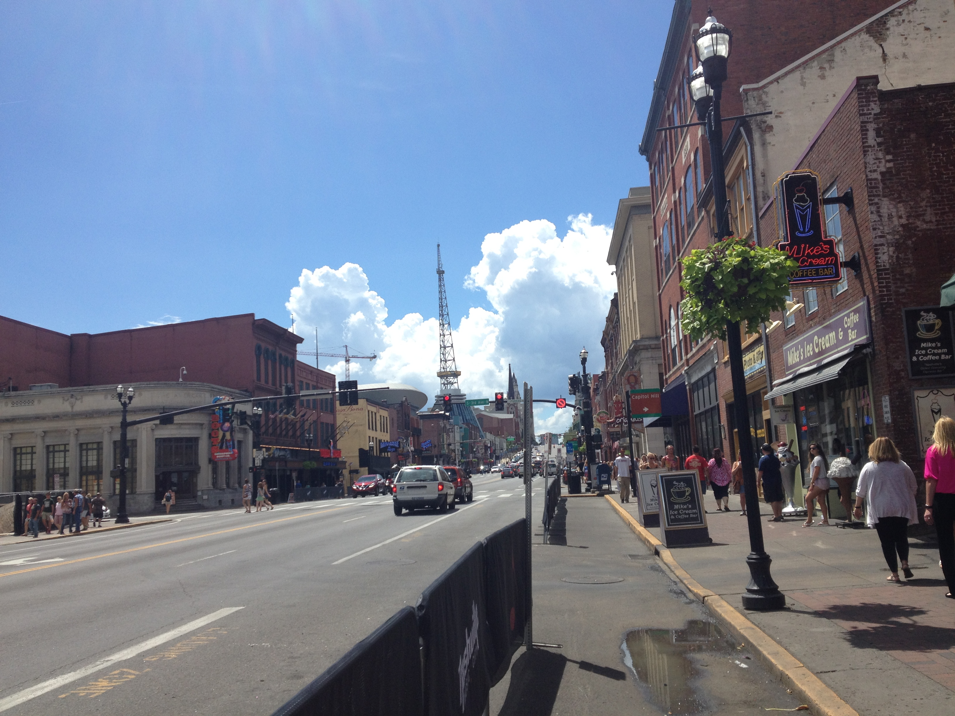 Westbound U.S. Route 70 (Broadway) approaching 3rd Avenue in Nashville, Tennessee